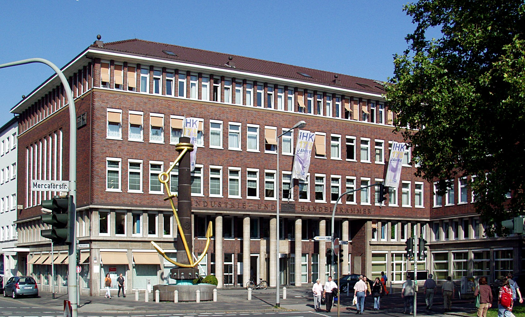 Building of "Niederrheinische Industrie- und Handelskammer Duisburg · Wesel · Kleve" in Duisburg, Germany This is a photograph of an architectural monument.